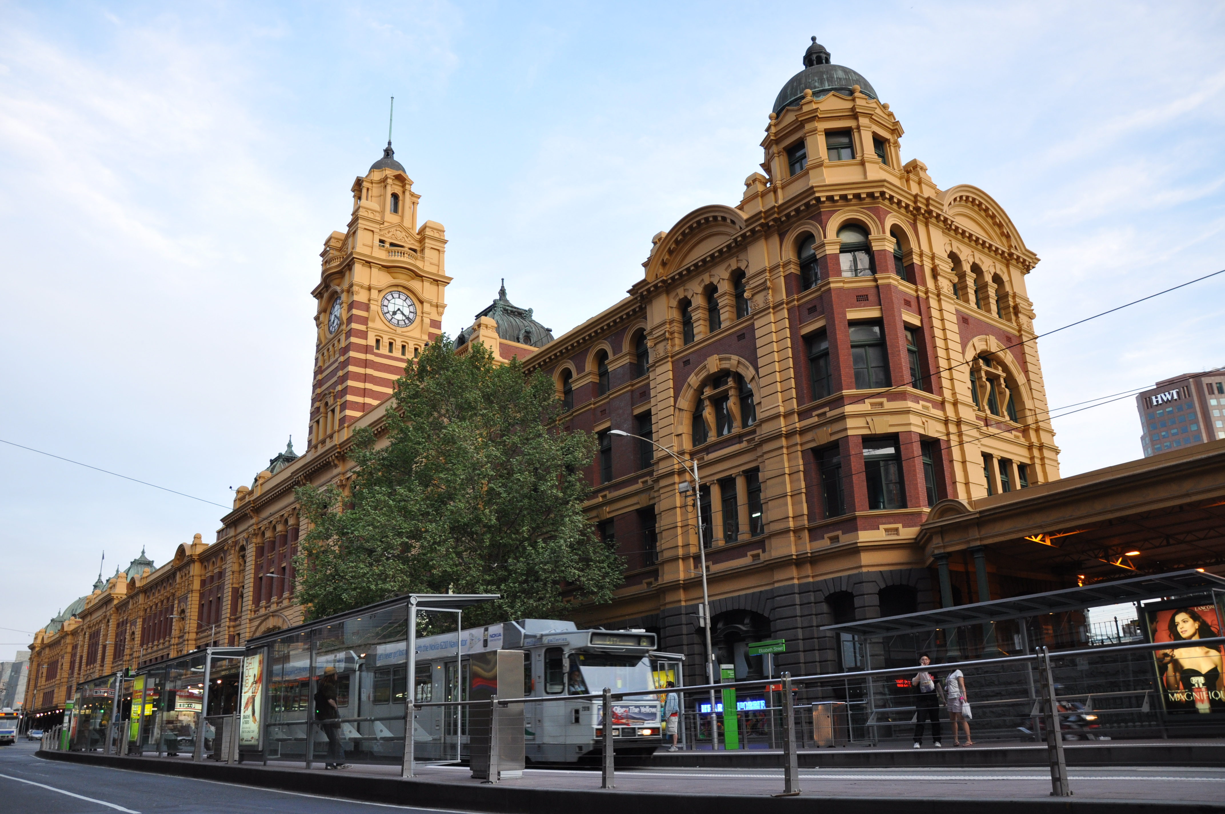 Tram stop outside Flinders Street Station